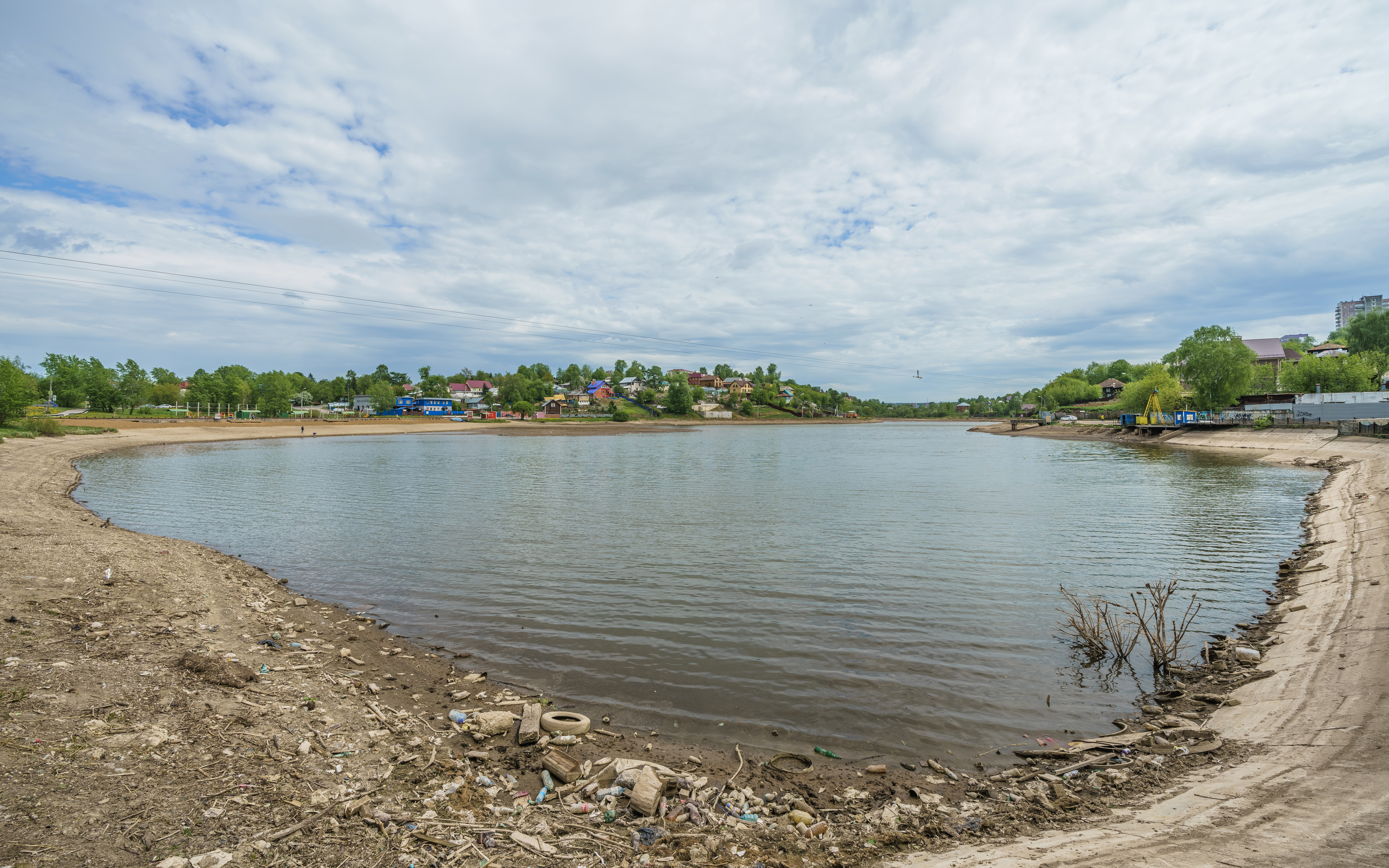 Motovilikha Pond in Perm, Russia